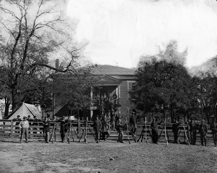 Appomattox Court House, Va. Federal soldiers at the courthouse April 1865